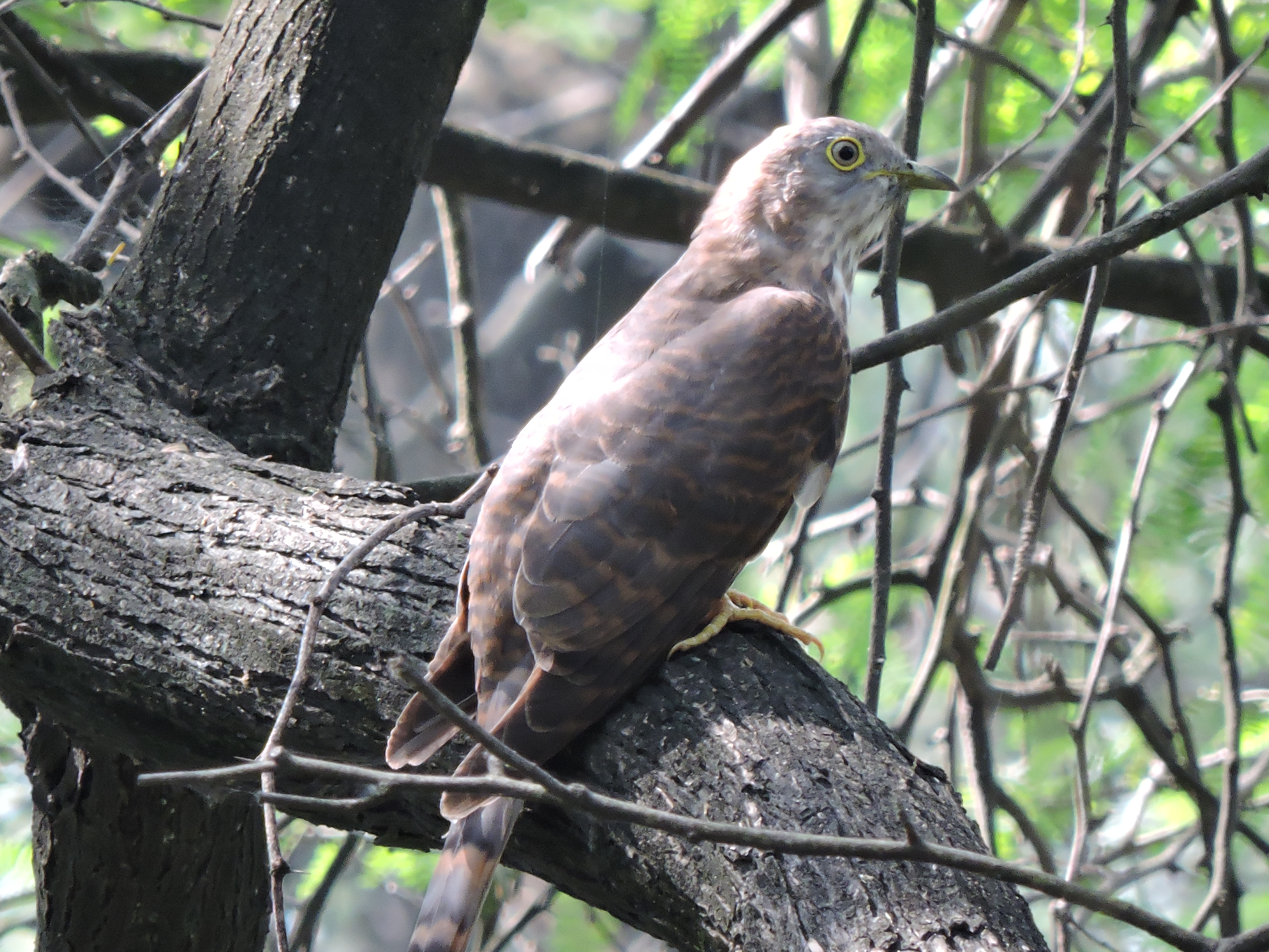 Common hawk-cuckoo,Sukhna Wildlife Sanctury,Chandigarh,India